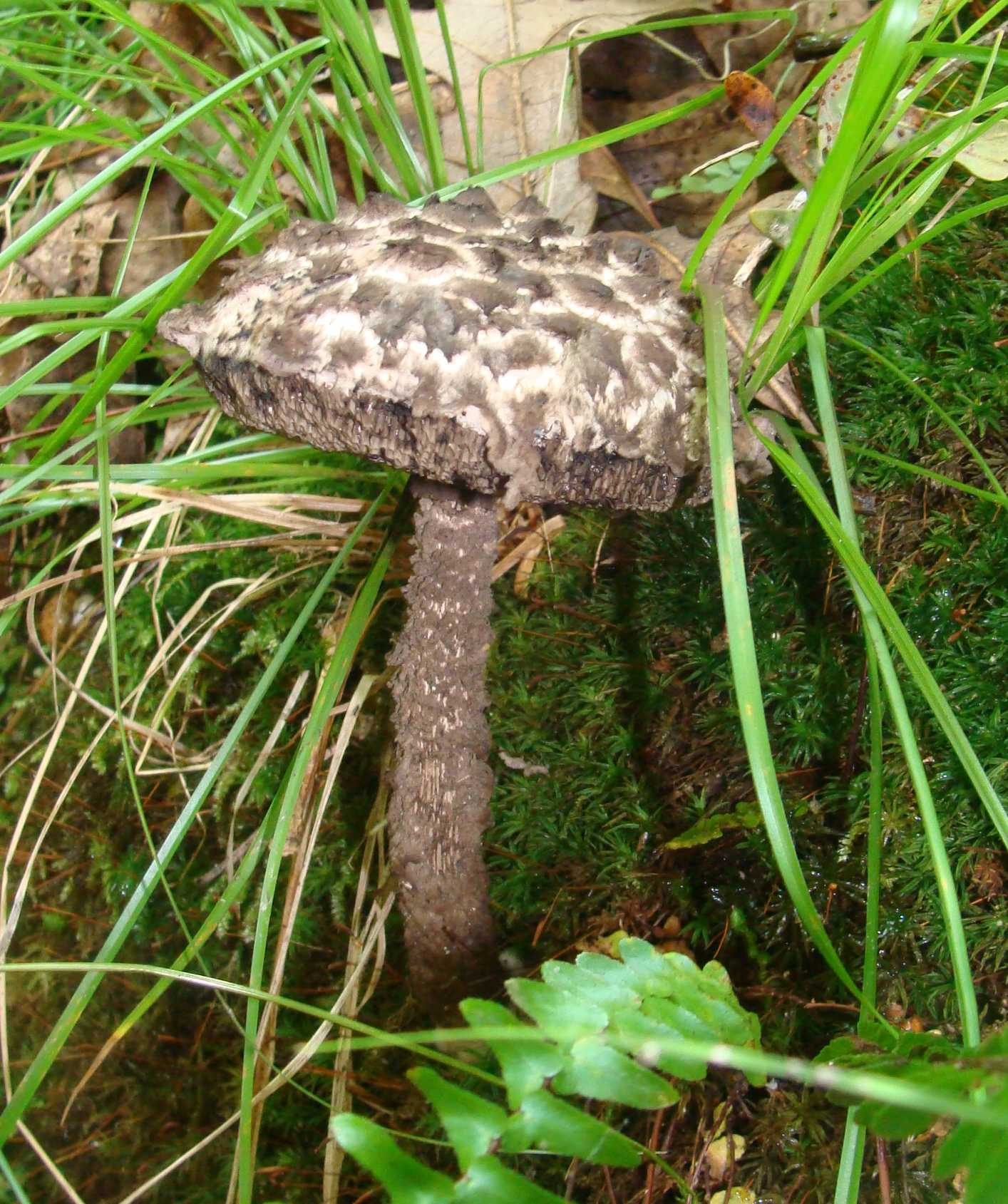 Strobilomyces floccopus (Vahl) P. Karst. Location: Forest 44, Missouri, USA Observation Notes: I have always found it interesting how long an “old man of the woods” can stay guarding his post.I once observed one that stayed standing for the whole summer. For more information about this, see the observation page at Mushroom Observer.